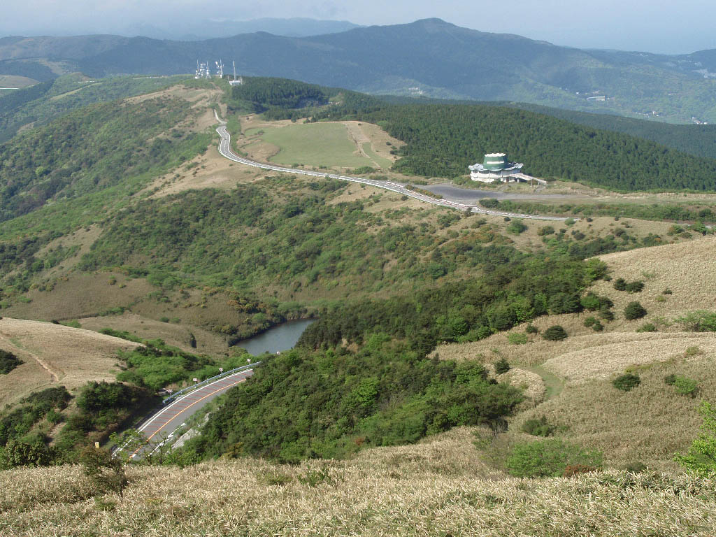 The Izu Skyline is a toll road through the eastern Izu peninsula in Shizuoka Prefecture, Japan. Looking the NNE on Mount Kutotake.